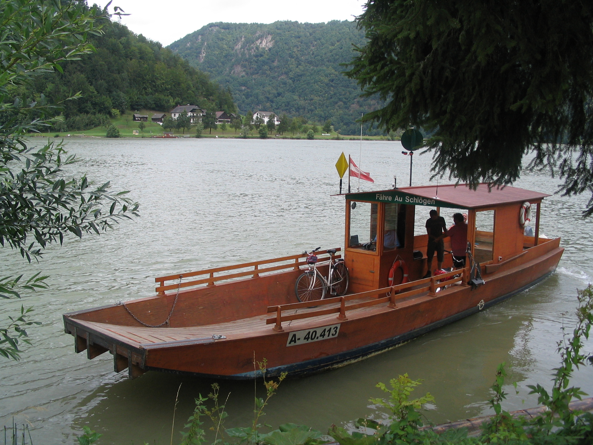 Bicycle ferry in Schloegen, Danube, Austria. Part of "Donauradweg"